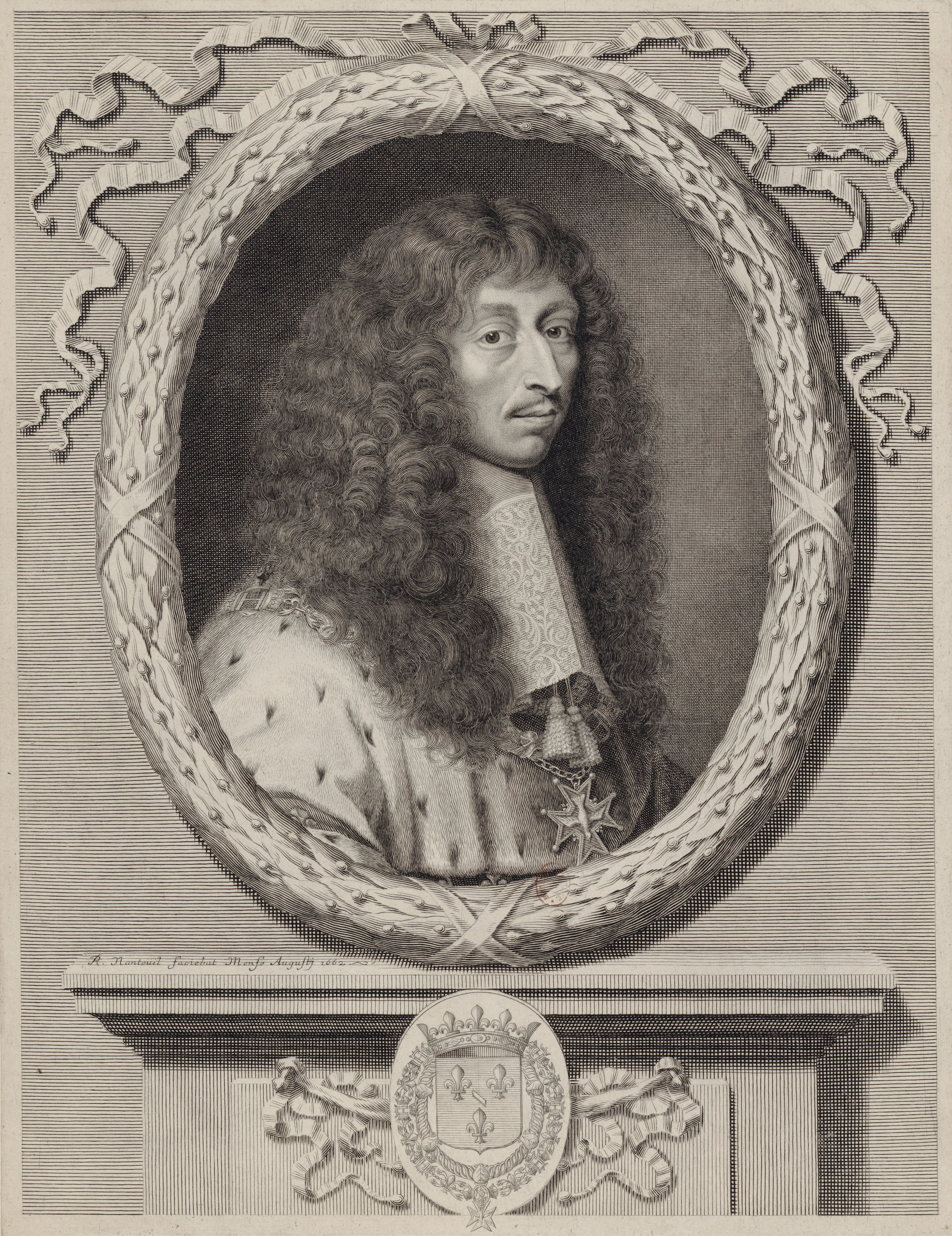 Engraved portrait of Louis II de Bourbon, Prince of Condé (1621-1686)